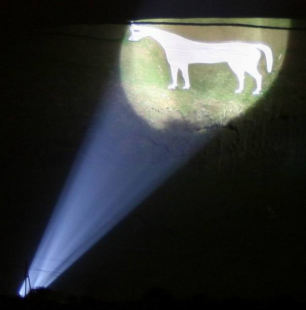 Westbury White Horse by Night The army lit up the newly repainted white horse in November 2006 for one night only.